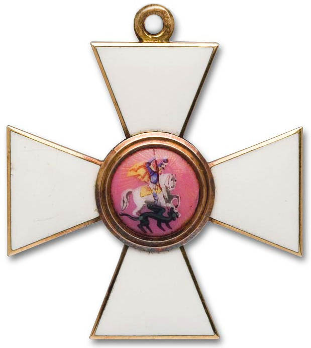 Badge to Order St George 4st